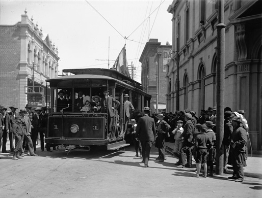 Fremantle Municipal Tramways tram no 1, outside the High Street car barn, at the opening of the Fremantle tramway network.